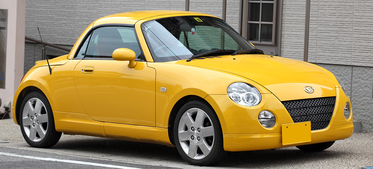 Daihatsu Copen 660